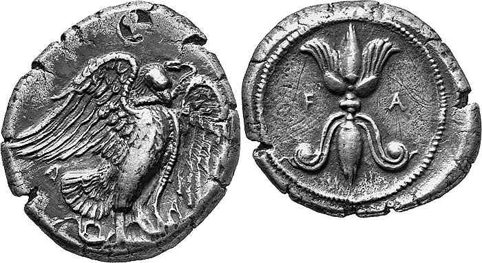 The coinage of Olympia, Greece. Circa 432-c.421, from the 87 th Olympiad. Stater (Silver, 12.09 g 7), late 420s, signed by Da… Δ Α. Eagle standing right, wings spread, holding, with his beak, the neck of a snake whose head rises up to strike left at the eagle’s head; the remainder of the snake’s body passes round the eagles neck and down to the ground where it is grasped by the eagle’s talons and ends in a coil below the eagle’s tail; to left and right, in small letters; above, countermark of an owl left with facing head. Ϝ Α (digamma-alfa, first two letters of Elis in local dialect: ϜΑΛΙΣ, walis). Thunderbolt, with wings above and volutes below; all within a circular border of pellets. From the collections of the Boston Museum of Fine Arts, NFA VIII, 6 June 1980, 178, and of E.P. Warren (the reference to the Greenwell collection in the NFA catalogue seems to be an error). This is one of the most noble and life-like eagles to appear on the coinage of Olympia. Its battle with the snake is portrayed in an extremely dramatic manner: the snake is doomed since the eagle is just about to break its neck, but his head, raised up above the eagle’s, is poised to strike. The reverse is also uncommonly well made with the thunderbolt, the letters, and the encircling border of pearls perfectly placed. The engraver who cut the dies for this piece was justly proud of them, and in a first at Olympia, added his signature, DA, to the obverse die (these letters reappear on the reverse of the magnificent Zeus issue of 416; (see lot 62, below). The owl countermark was ascribed by Seltman to Tegea. Another example, possibly from the same punch, appears on a hemidrachm, lot 60, below. LEU90, 58.